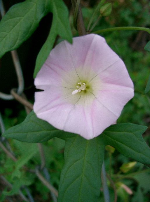 Calystegia hederacea